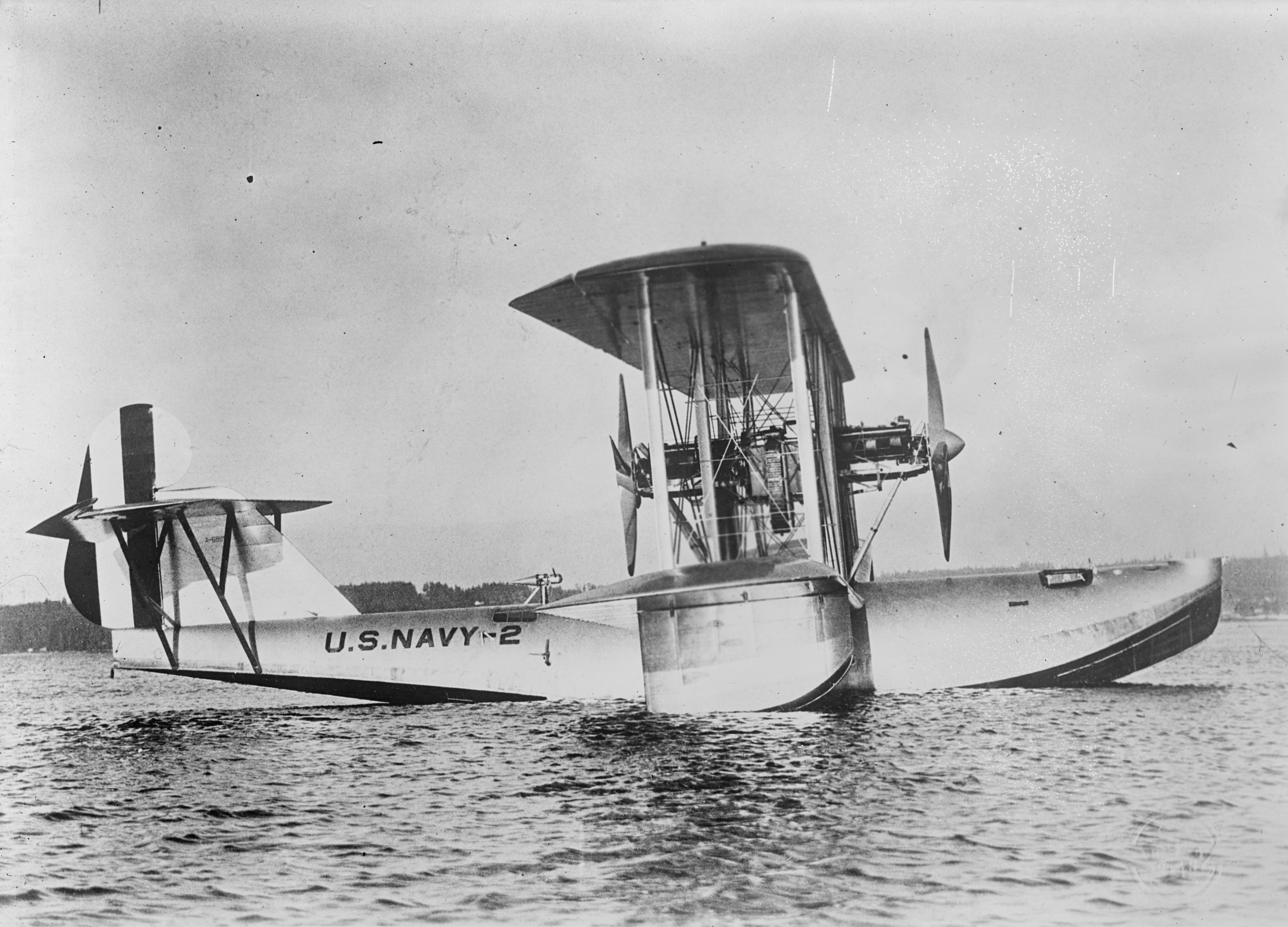 A U.S. Navy PB-1 (Boeing Model 50) patrol plane, in 1925. The PB designation was first used for the Boeing model 50 flying boat which was built in 1925 for a nonstop flight to Hawaii. The US Navy had designated the aircraft PB-1 and given it serial A6881. The designation PB was the used again for the US Navy version of the B-17 Flying Fortress. On 31 July 1945 the US Navy ordered a single B-17F from the USAAF production line with the designation PB-1 and the BuNo 34106. Former B-17Gs were converted for the US Coast Guard as PB-1Gs and for the USN as PB-1Ws.